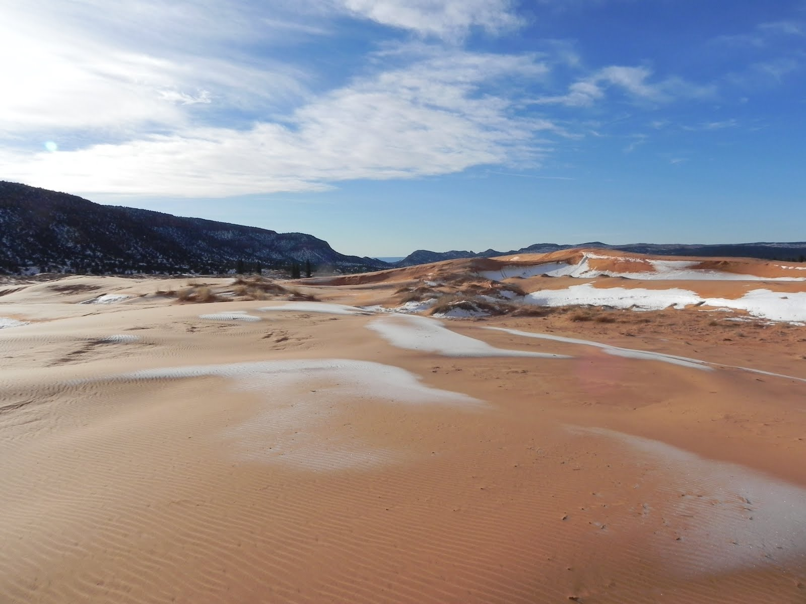 Coral Pink Sand Dunes State Park, Utah